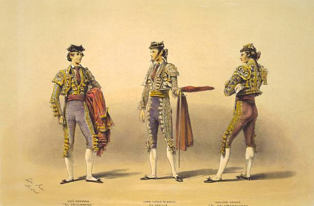 William Lake Price, English school. Matadors, Jose Redondo (El Chiclanero), Juan Lucas Blanco of Seville, and Julian Casas (El Salamanquino). Chromolithograph.